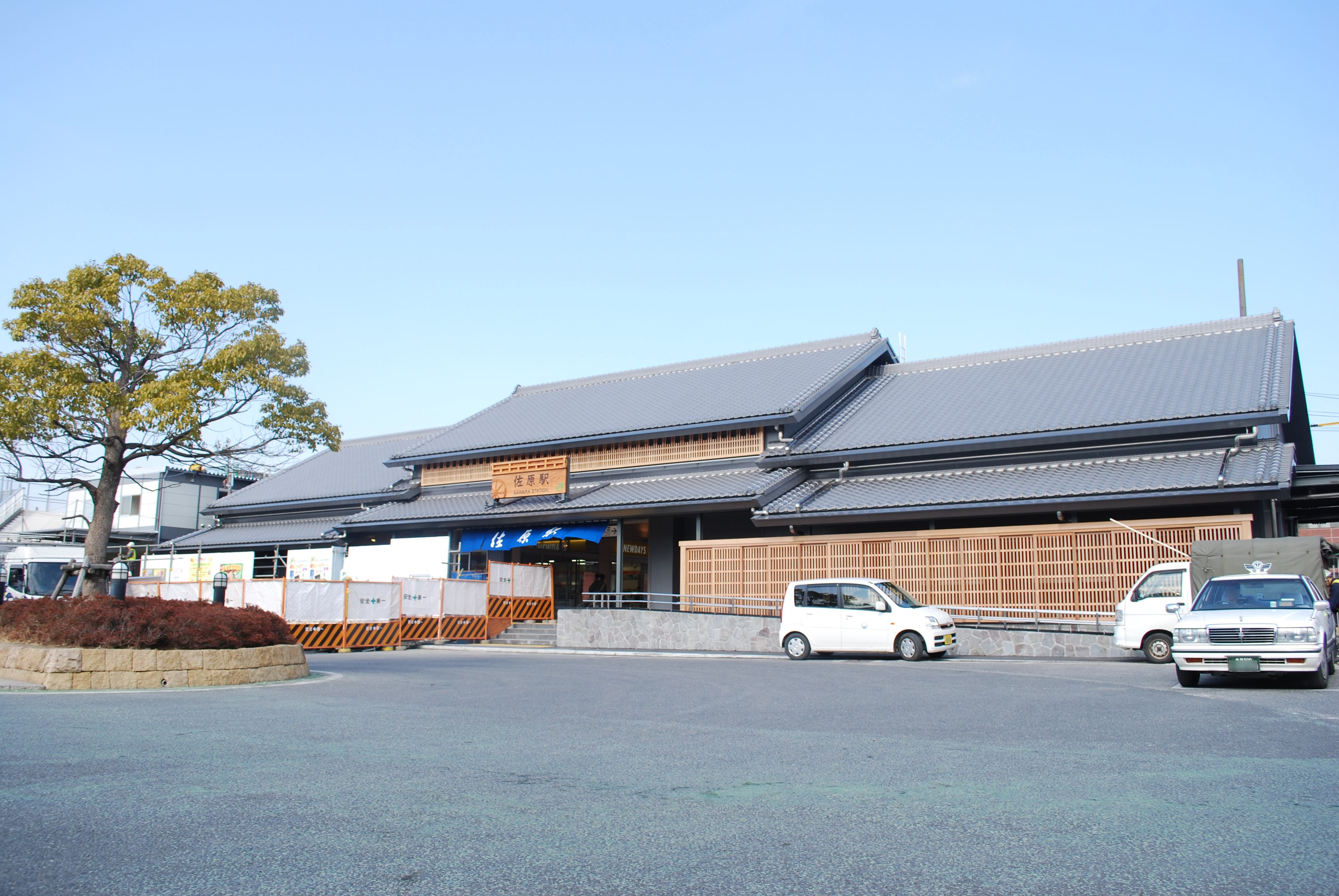 Sawara Sta.,Sawara,Katori-city,Japan